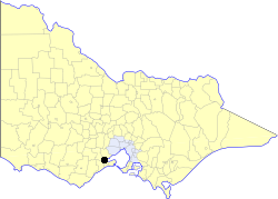 Location of the City of Geelong within Victoria.